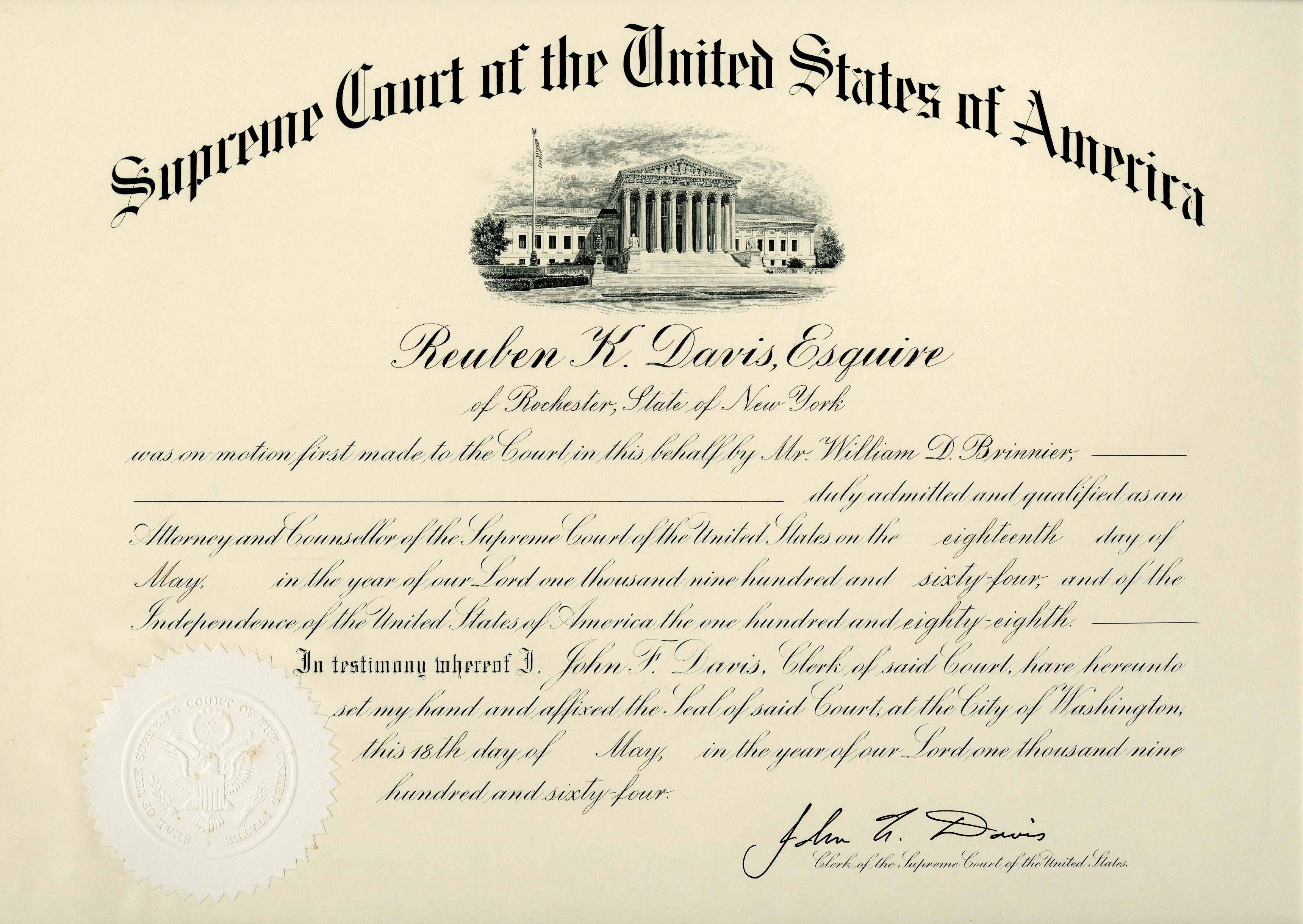 Certificate admitting Reuben K. Davis to practice at the United States Supreme Court